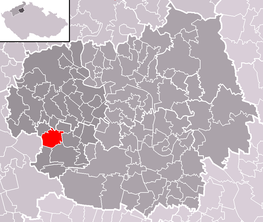 Location of Klapý municipality within Litoměřice District and administrative area of Lovosice as a Municipality with Extended Competence.